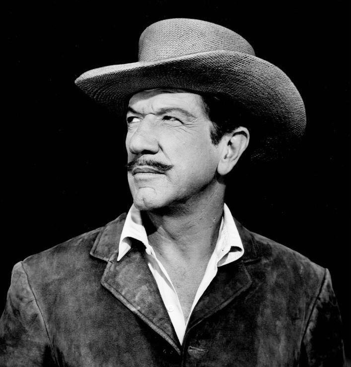 Photo of Richard Boone as Paladin from the television program Have Gun, Will Travel.